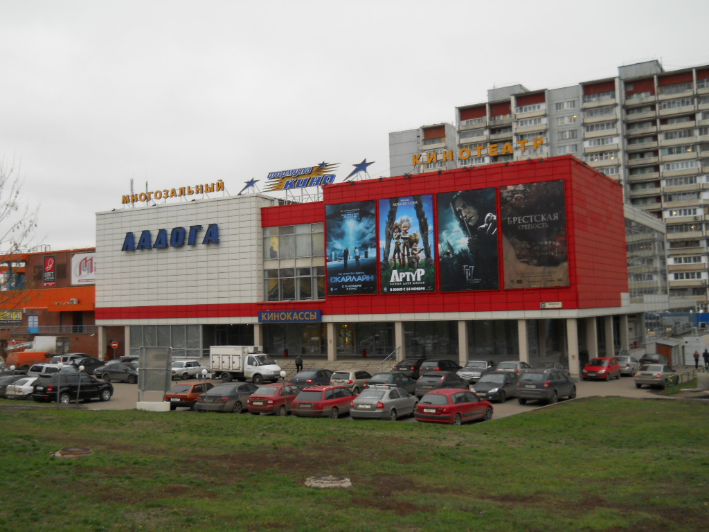 Shirokaya Street, 12, movie theatre Ladoga (Moscow, Russia).